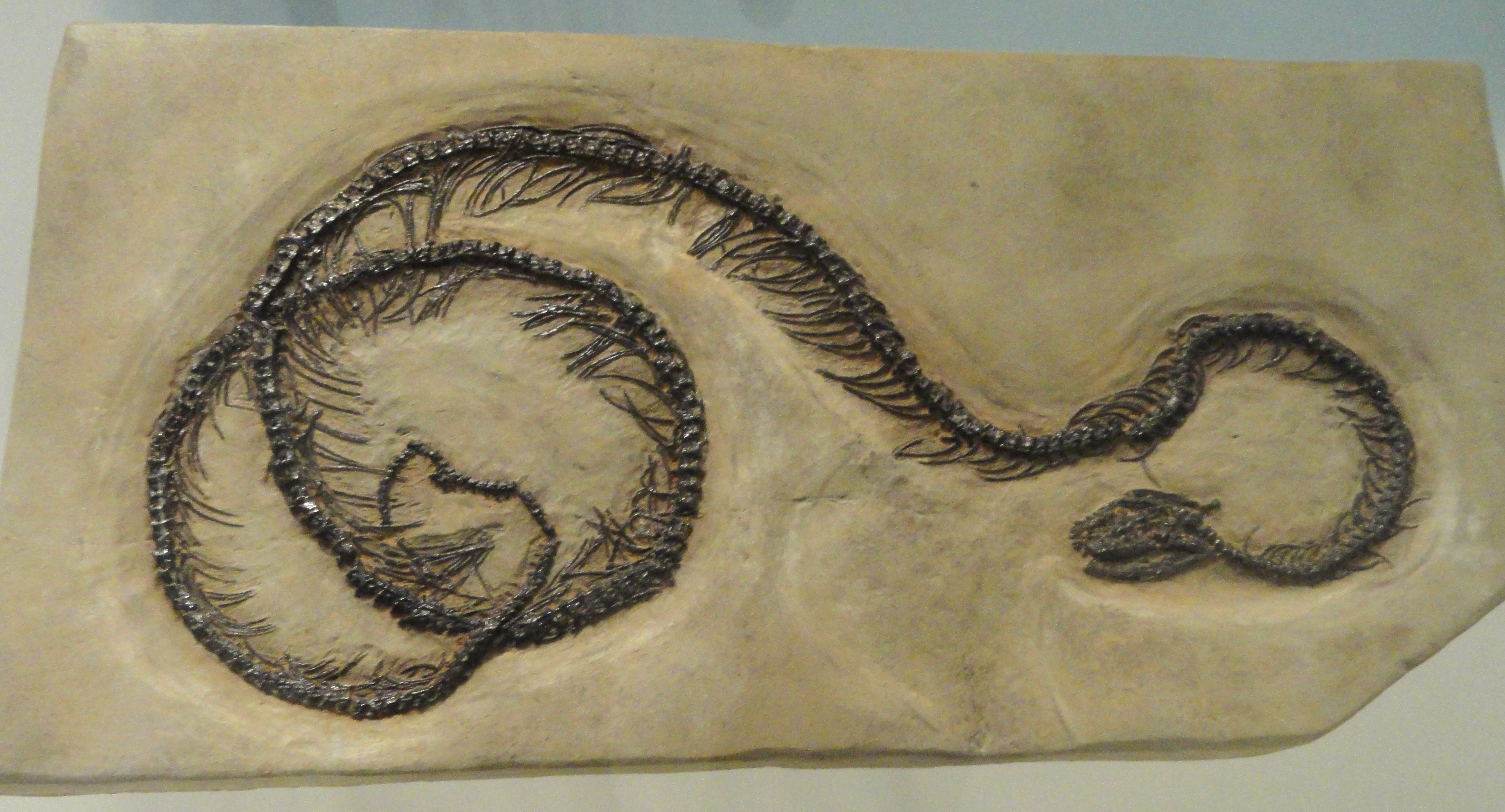 Exhibit in the fossil collection of the American Museum of Natural History, Manhattan, New York City, New York, USA.